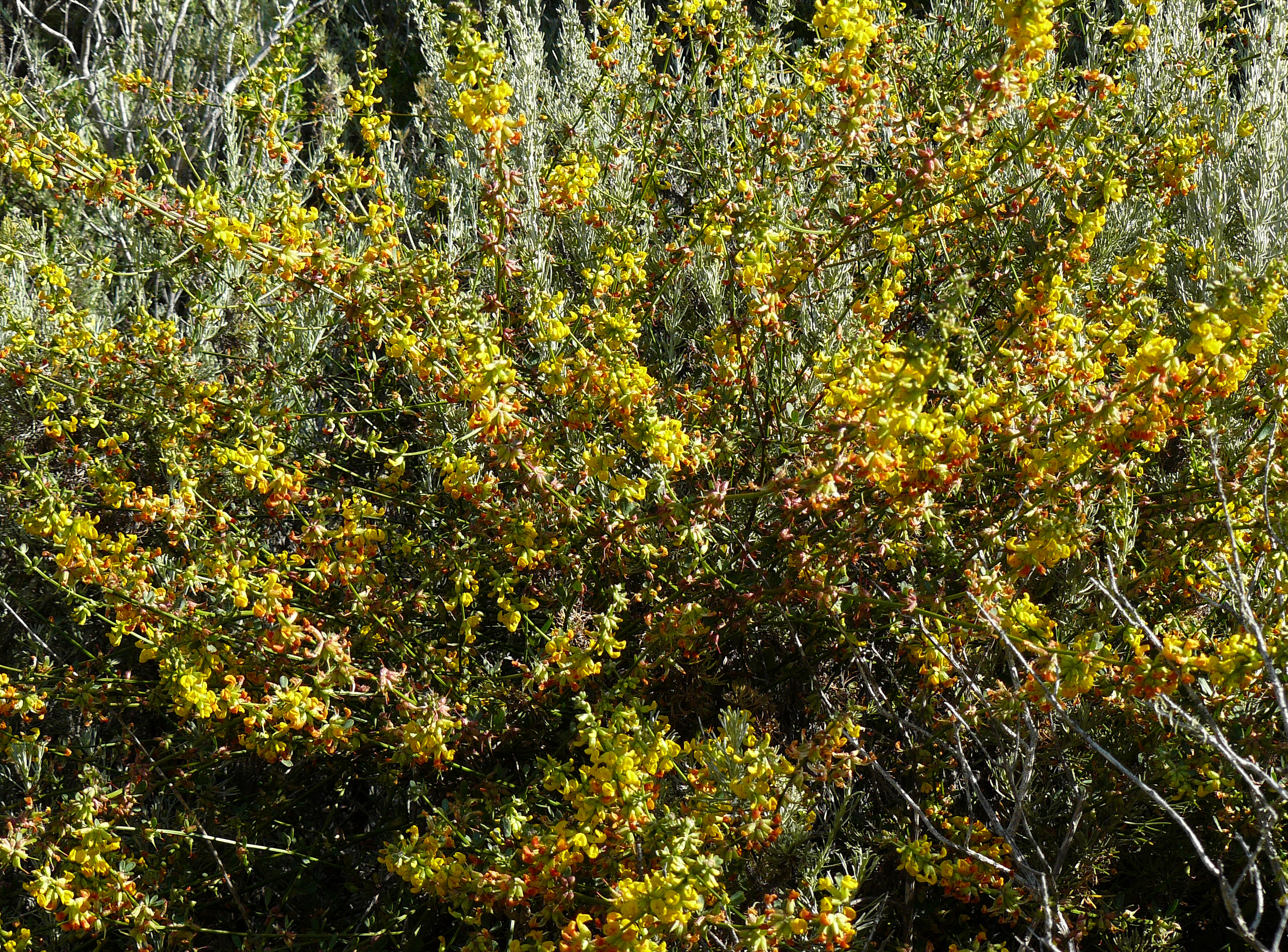 Acmispon glaber — Deerweed. In Montana de Oro State Park, San Luis Obispo County, California.